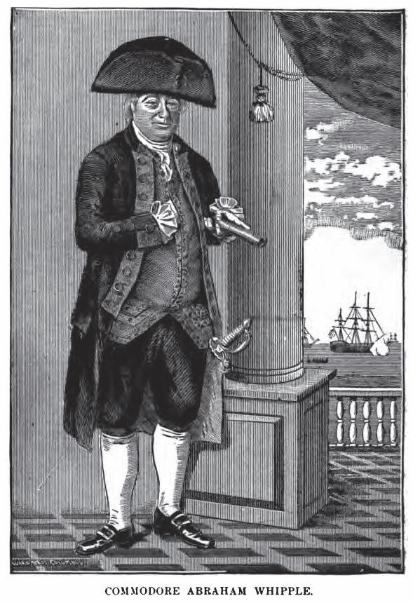 Commodore Abraham Whipple, from the book by Henry Howe: Historical Collections of Ohio, Volume II, Laning Printing Company, Norwalk, Ohio (1895). ColWilliam 00:41, 12 September 2007 (UTC)